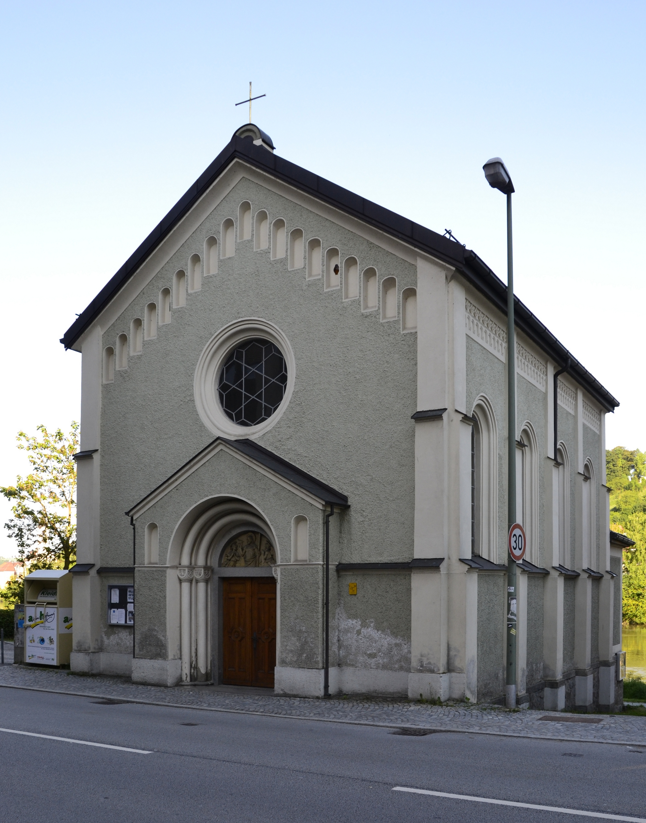 The Church of the Resurrection in Passau, Germany.